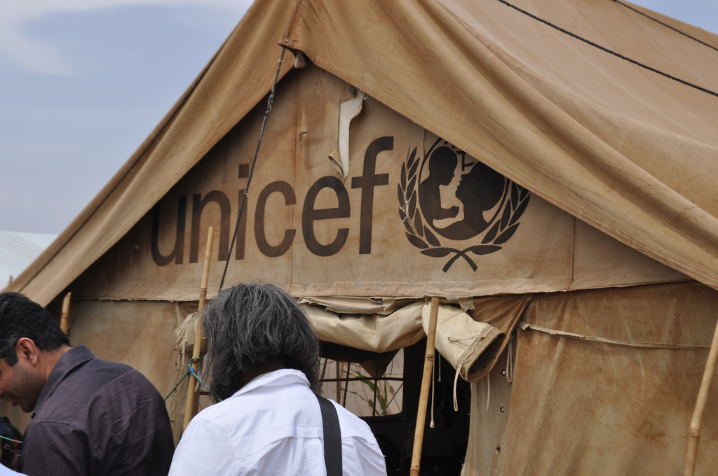 A UNICEF tent in the Abu Shouk IDP Camp for providing humanitarian services.